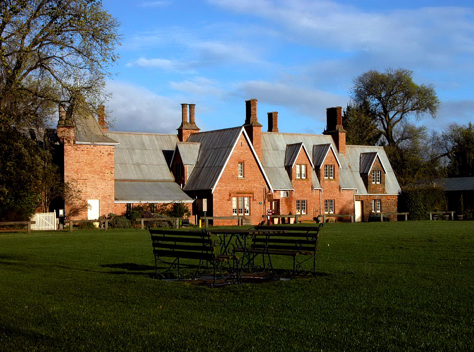 The Grange in Campbell Town, Tasmania